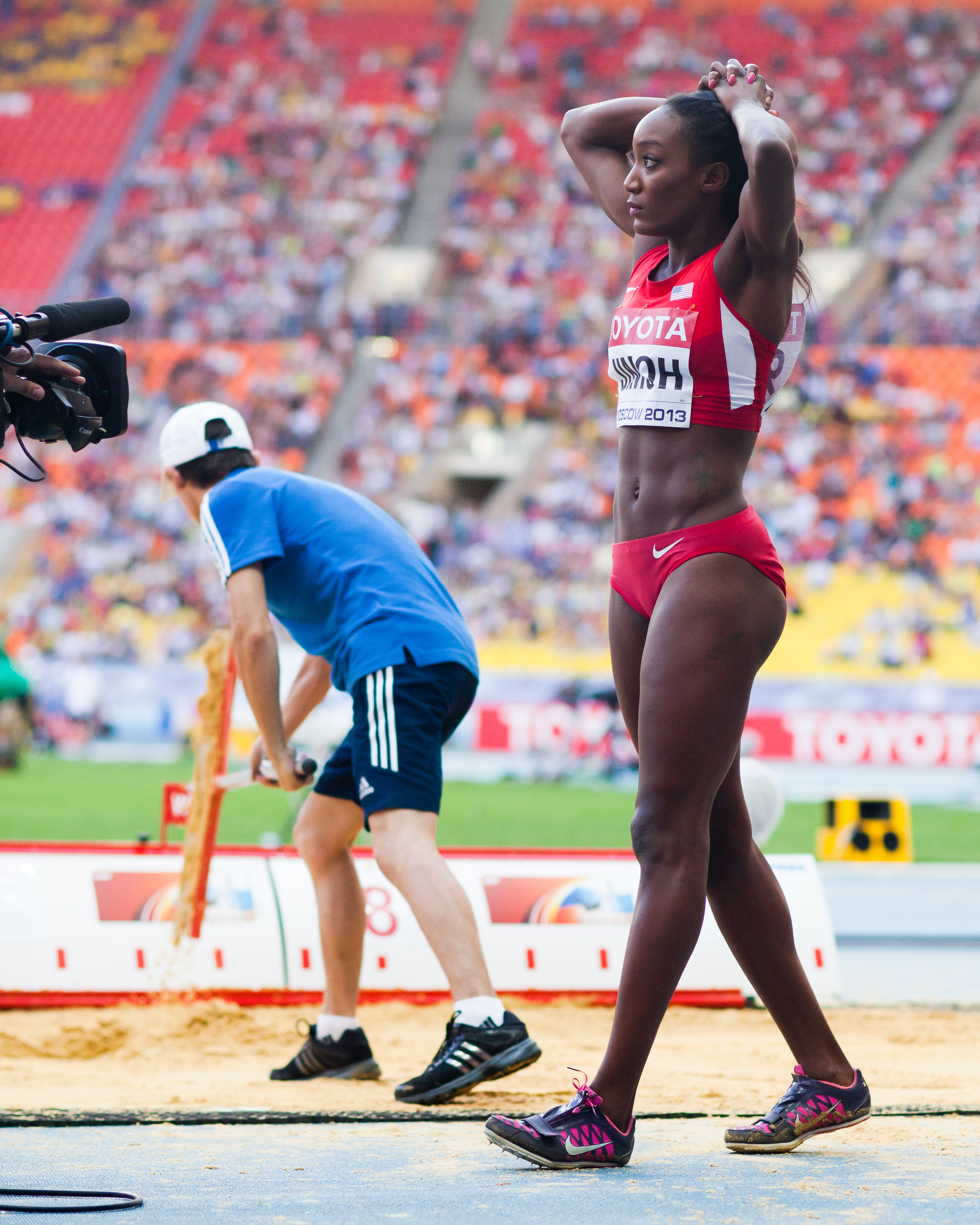 Funmi Jimoh during 2013 World Championships in Athletics in Moscow.